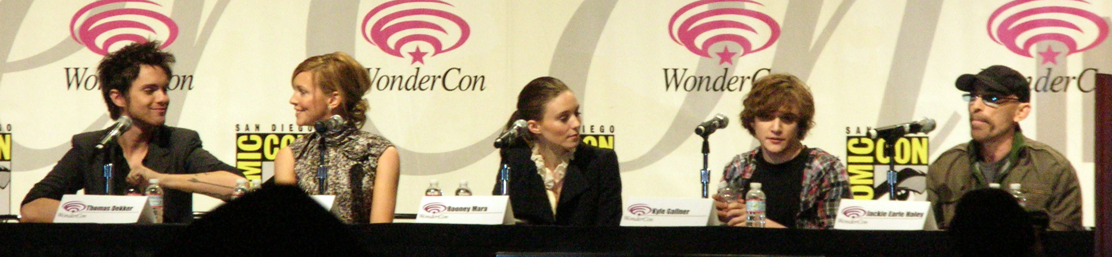 The panel for A Nightmare on Elm Street at WonderCon 2010. From left to right: Thomas Dekker, Katie Cassidy, Rooney Mara, Kyle Gallner, and Jackie Earle Haley.